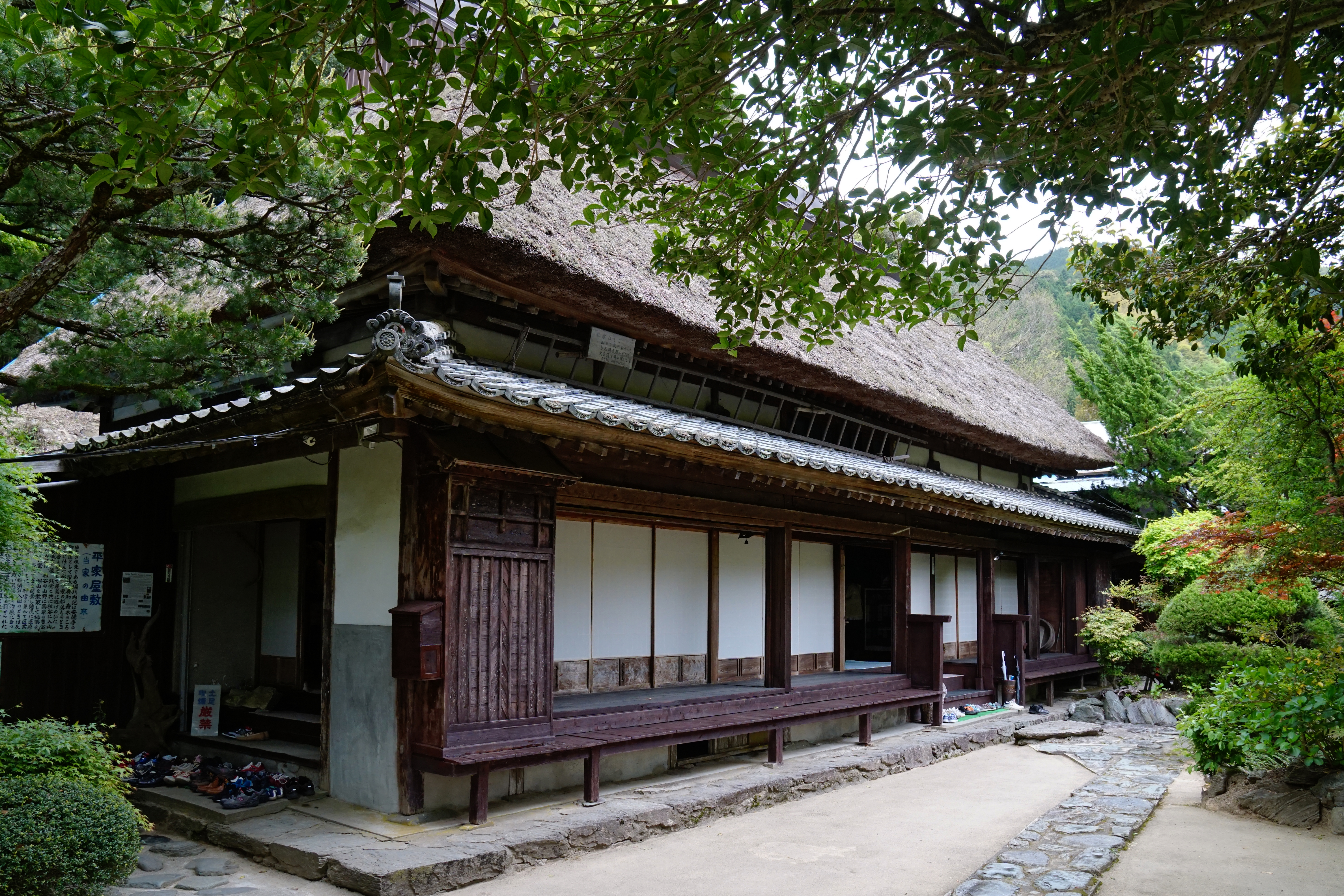 At The_Folklore_Museum_of_the_Heike_Estate in Miyoshi, Tokushima prefecture, Japan.